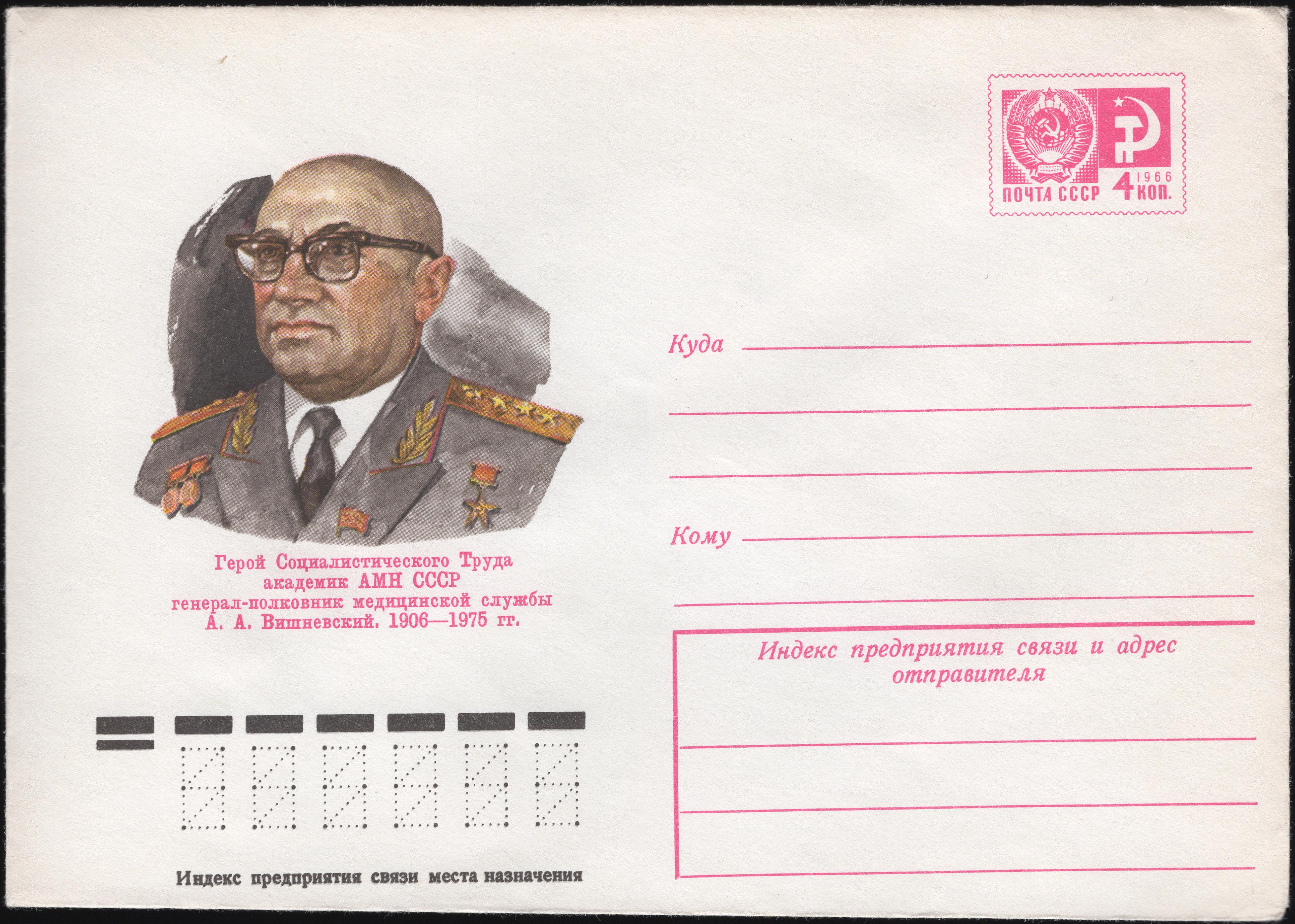 Hero of Socialist Labour academician of the USSR Academy of Medical Sciences colonel general of military medicine Alexander Alexandrovich Vishnevsky. 1906-1975. Series: Heroes of Socialist Labour. Artist Peter Bendel.